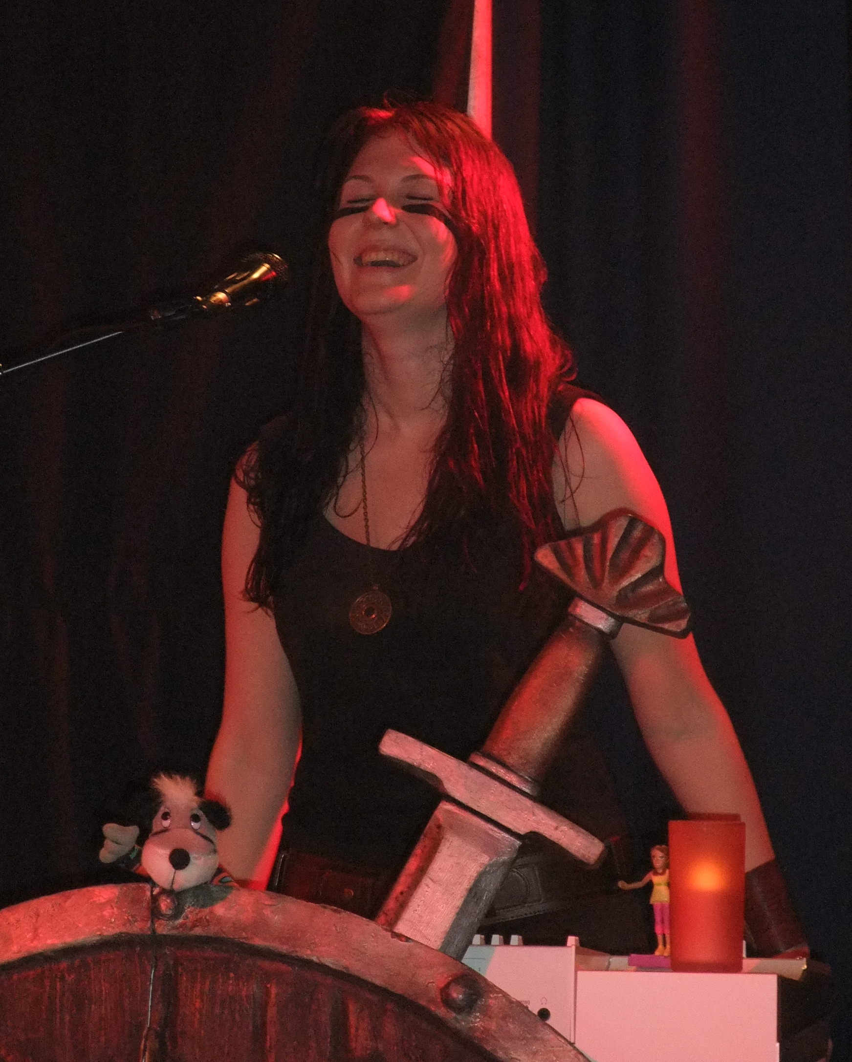 Emmi Silvennoinen playing with Ensiferum at The Scala in London.